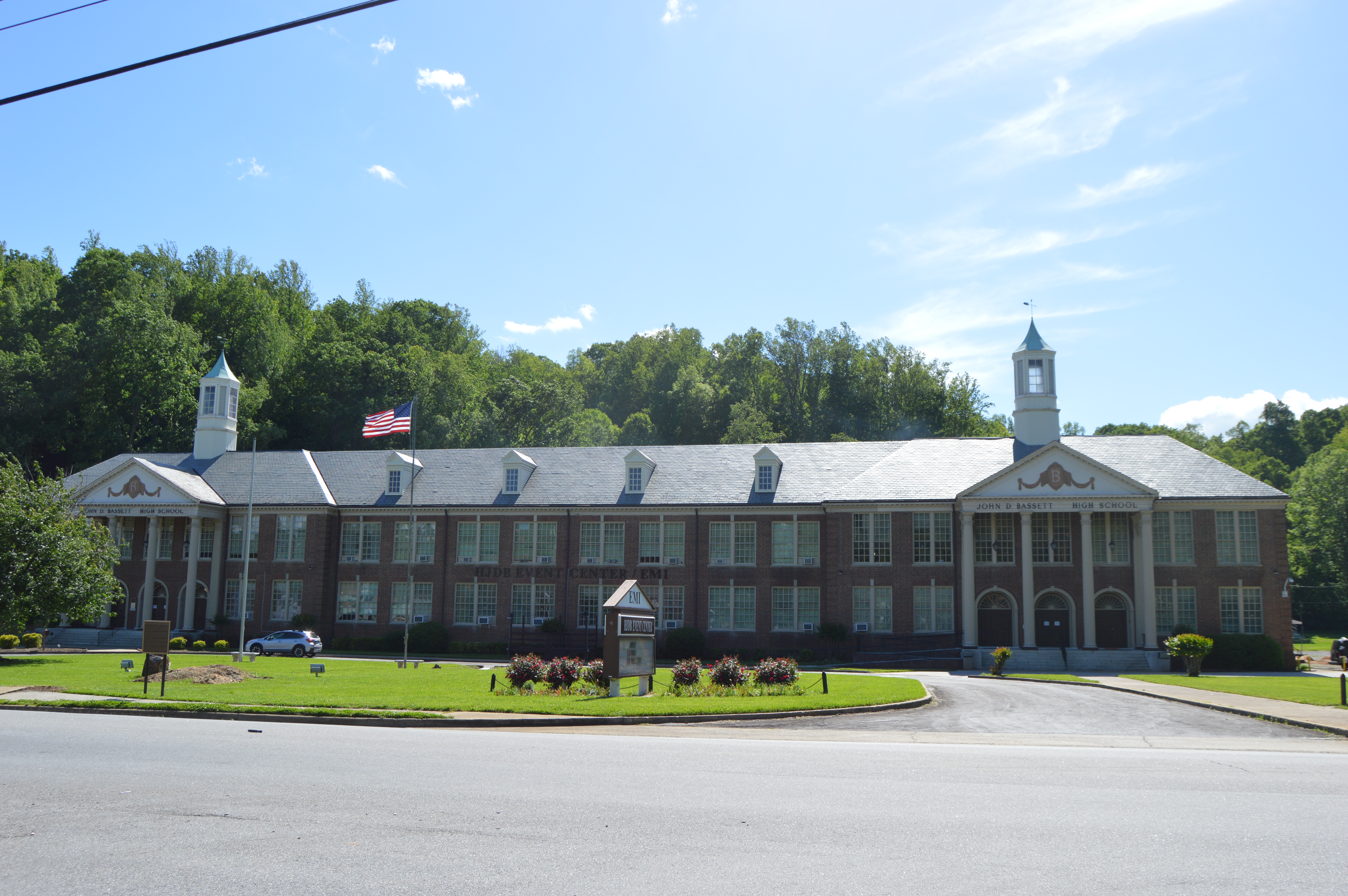 Front of the former John D. Bassett High School, located on State Route 57 in Bassett, Virginia, United States. Built in 1948, it is listed on the National Register of Historic Places.